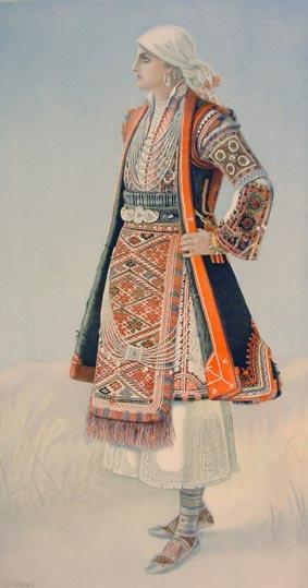 Greek Macedonian Peasant Woman's Dress (Macedonia, Antartiko) - Greek Costume Collection by NICOLAS SPERLING (Russia 1881-1940 / act: Athens).